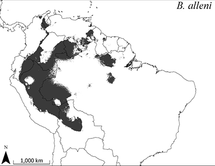 Predicted distribution for Bassaricyon alleni based on bioclimatic models. To create these binary maps we used the average minimum training presence for 10 test models as our cutoff. In addition, we excluded areas of high probability that were outside of the known range of the species if they were separated by unsuitable habitat. Helgen K, Pinto C, Kays R, Helgen L, Tsuchiya M, Quinn A, Wilson D, Maldonado J (2013). "Taxonomic revision of the olingos (Bassaricyon), with description of a new species, the Olinguito". ZooKeys 324: 1--83. Pensoft Publishers. Retrieved on 2013-08-15.